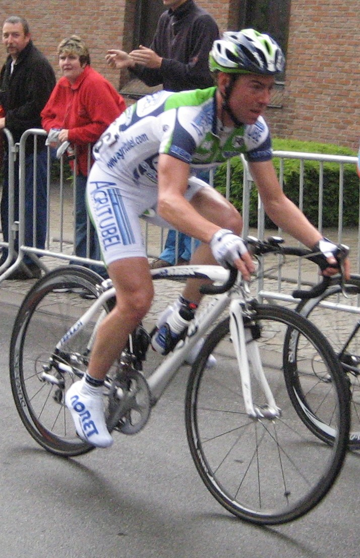 Cédric Hervé (Agritubel) during the second stage of the 2007 Tour de France.